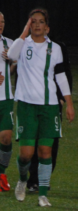 Republic of Ireland striker Fiona O'Sullivan after a match against USA in Portland